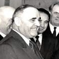 Image of Gheorghe Gheorghiu-Dej (1901 - 1965), Romanian Communist politician. General Secretary of the Communist Partij 1945-1954, 1955-1965, Prime Minister, Chairman of the Council of State (Head of State) 1961-1965